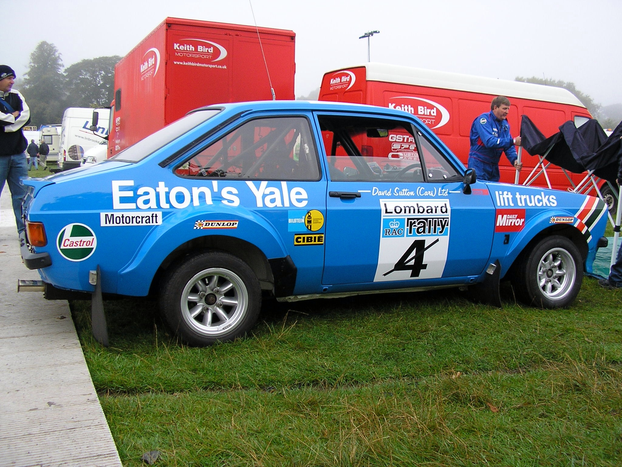 Eaton's Yale sponsored Ford Escort RS as driven by Björn Waldegård on the 1979 Lombard RAC Rally